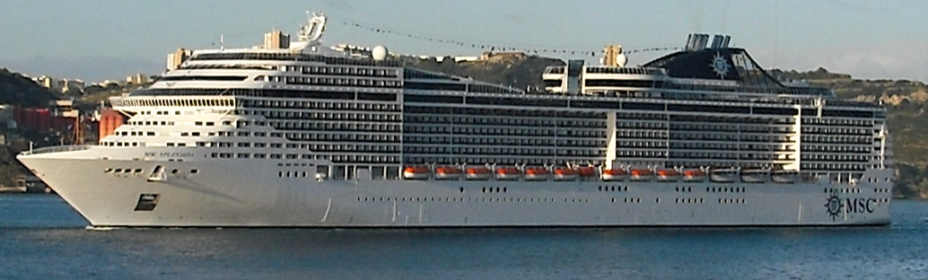 The cruise ship, MSC Splendida, on part of her maiden voyage to Barcelona passes under the 25 de Abril Bridge in Lisbon.